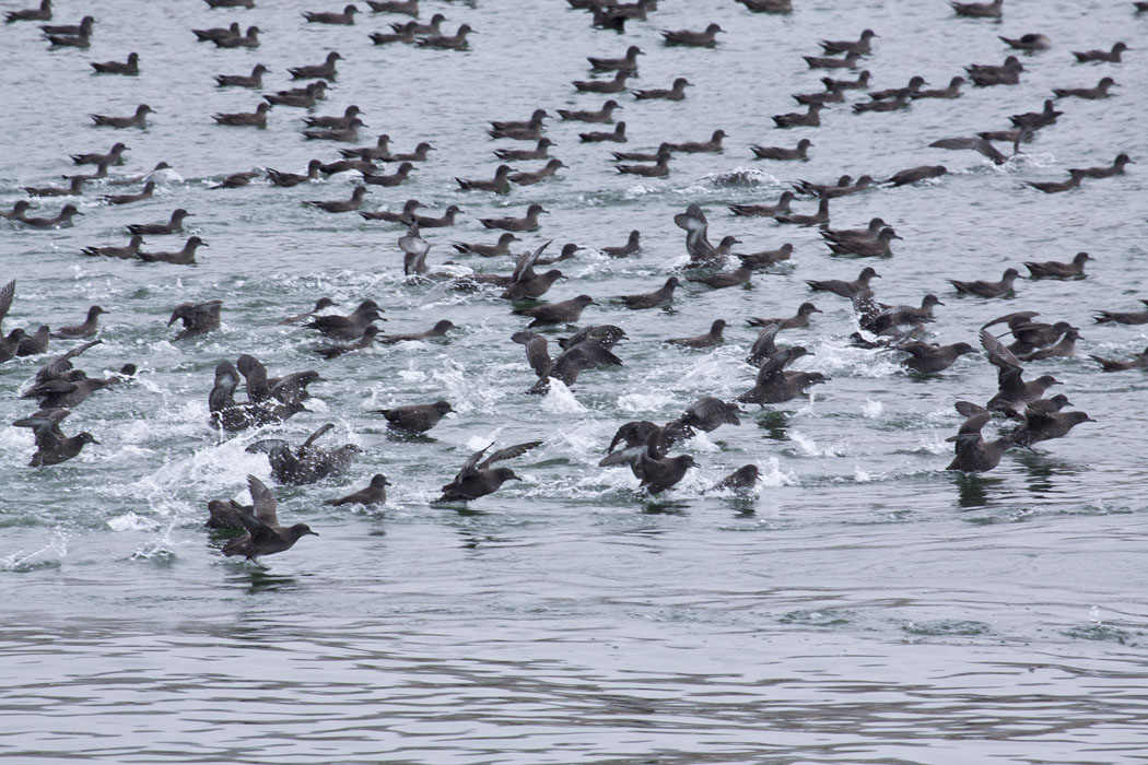 Many Sooty Shearwaters near Avila Beach, California, USA.